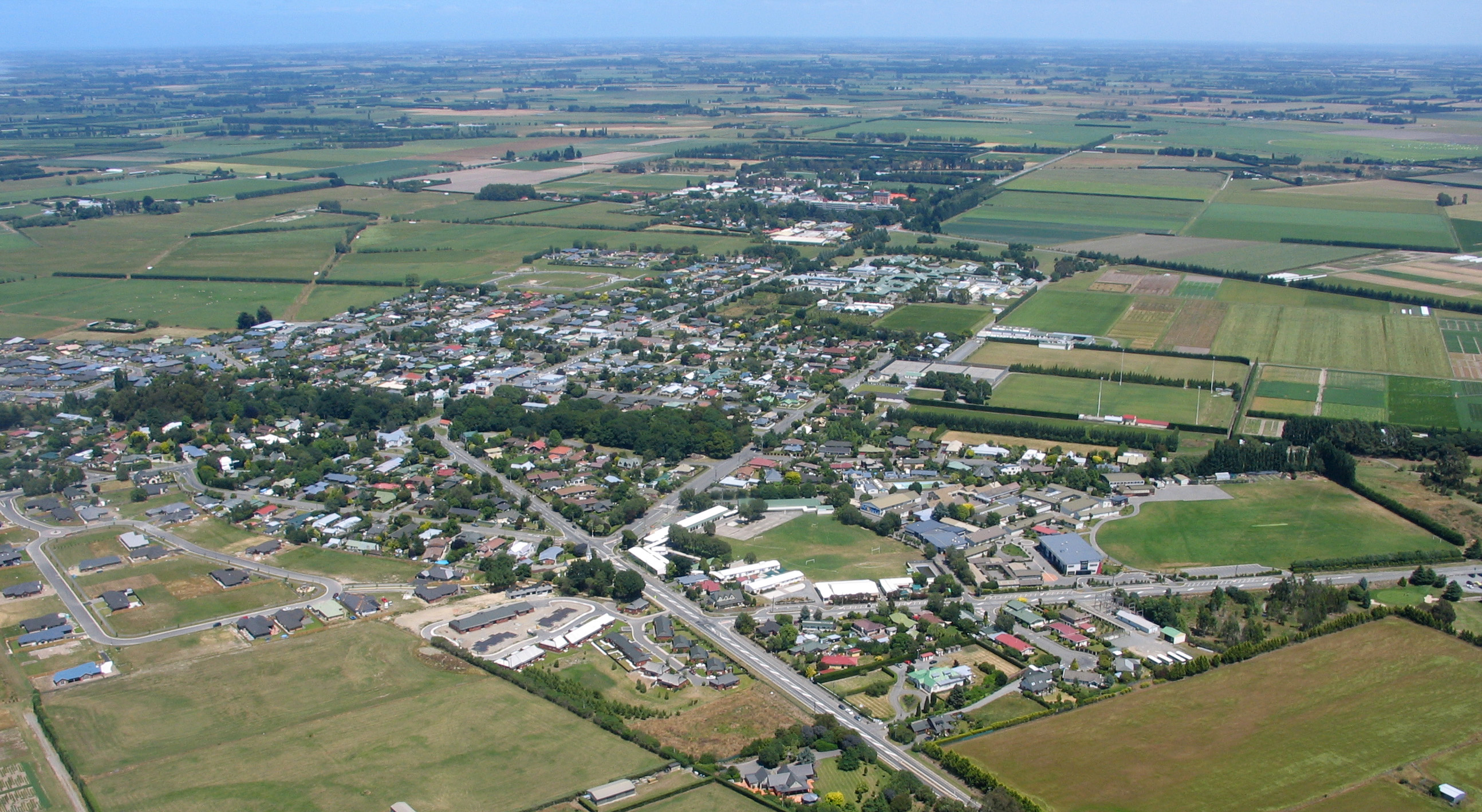 Lincoln, New Zealand from the air, 27th December 2005. Photographer DerekSmalls.